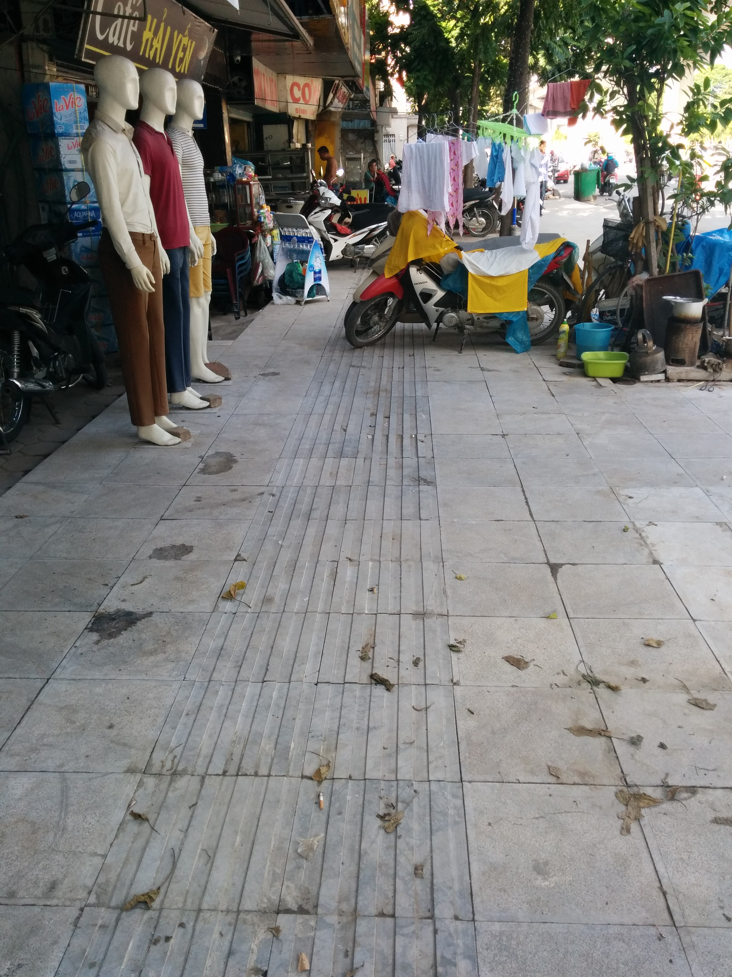 Shot from street